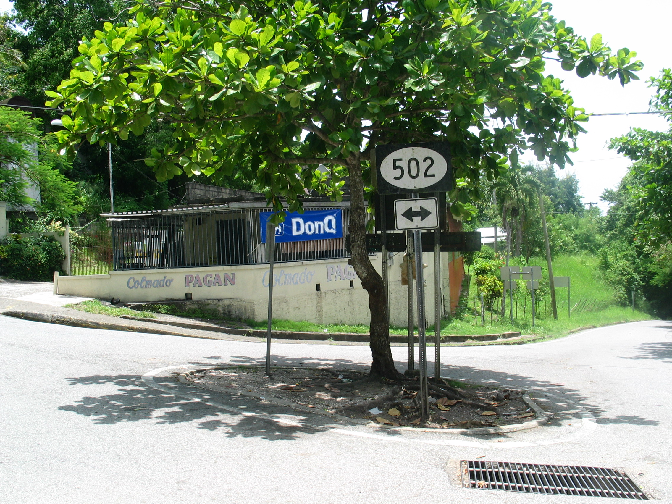 PR-502 viajando hacia el sur en Barrio Quebrada Limon, Ponce, PR (IMG 2727)